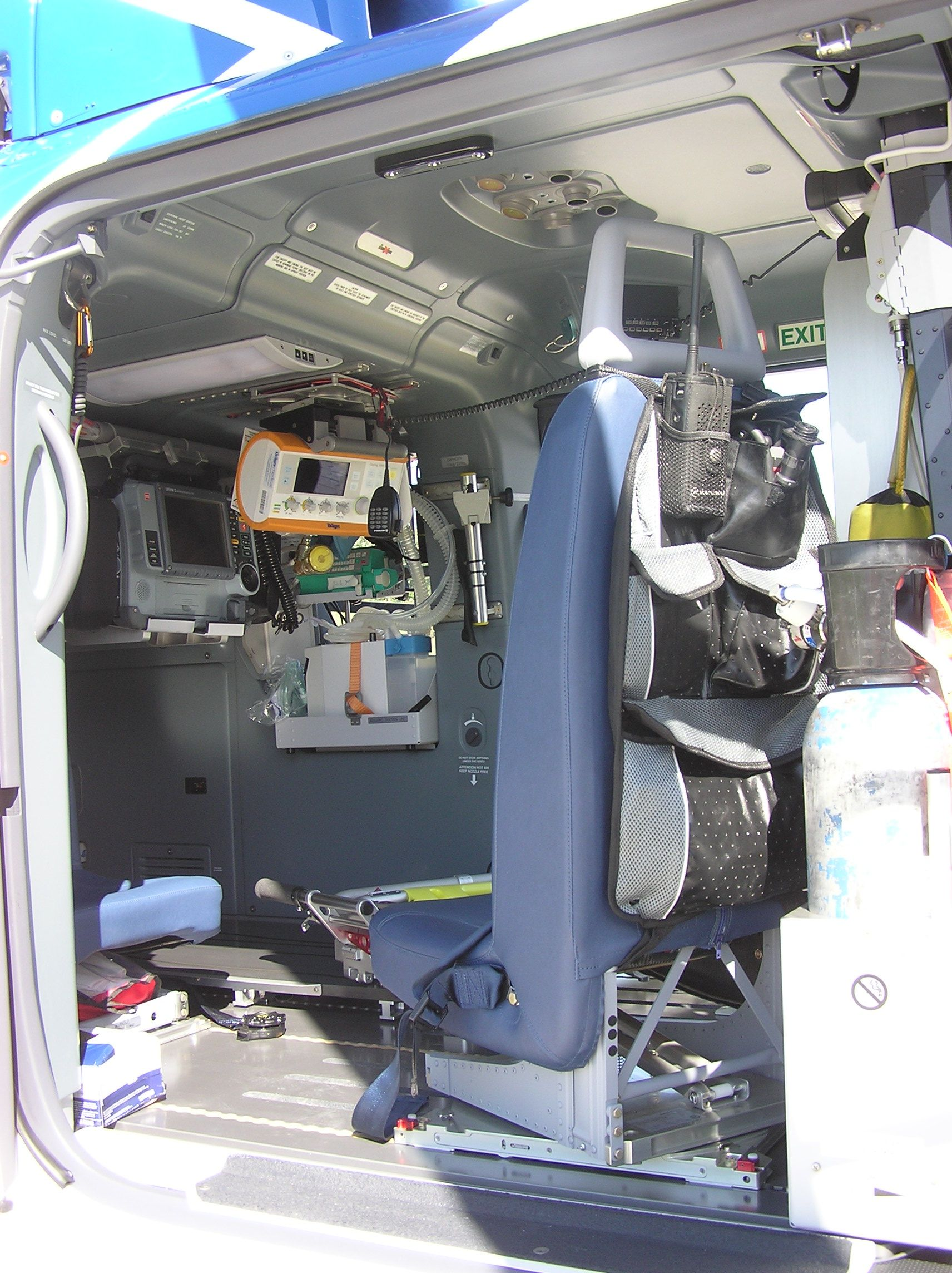 Rescue helicopter of the Olomouc Region in the Czech Republic, Kryštof 09, EC 135 T2+, Olomouc